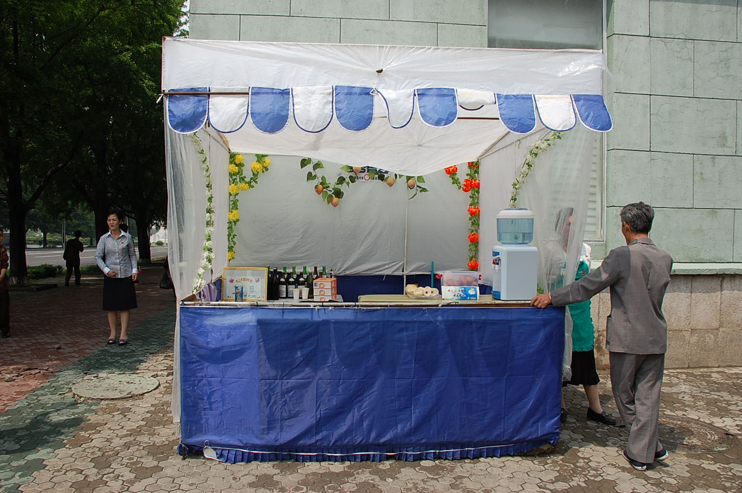 Trip to North Korea in June, 2008